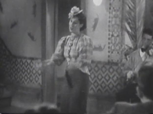 Low resolution screenshot of actress / singer Nona Lee singing "All I Want Is You" from the American exploitation film The Cocaine Fiends aka The Pace That Kills (1935). The film is now in the public domain. The song takes place in the Dead Rat Club or Café, which is decorated with paintings of dead rats on the walls. Although this was apparently the only film that she which appeared in, footage of her song was later re-used in the 1943 film Confessions of a Vice Baron.